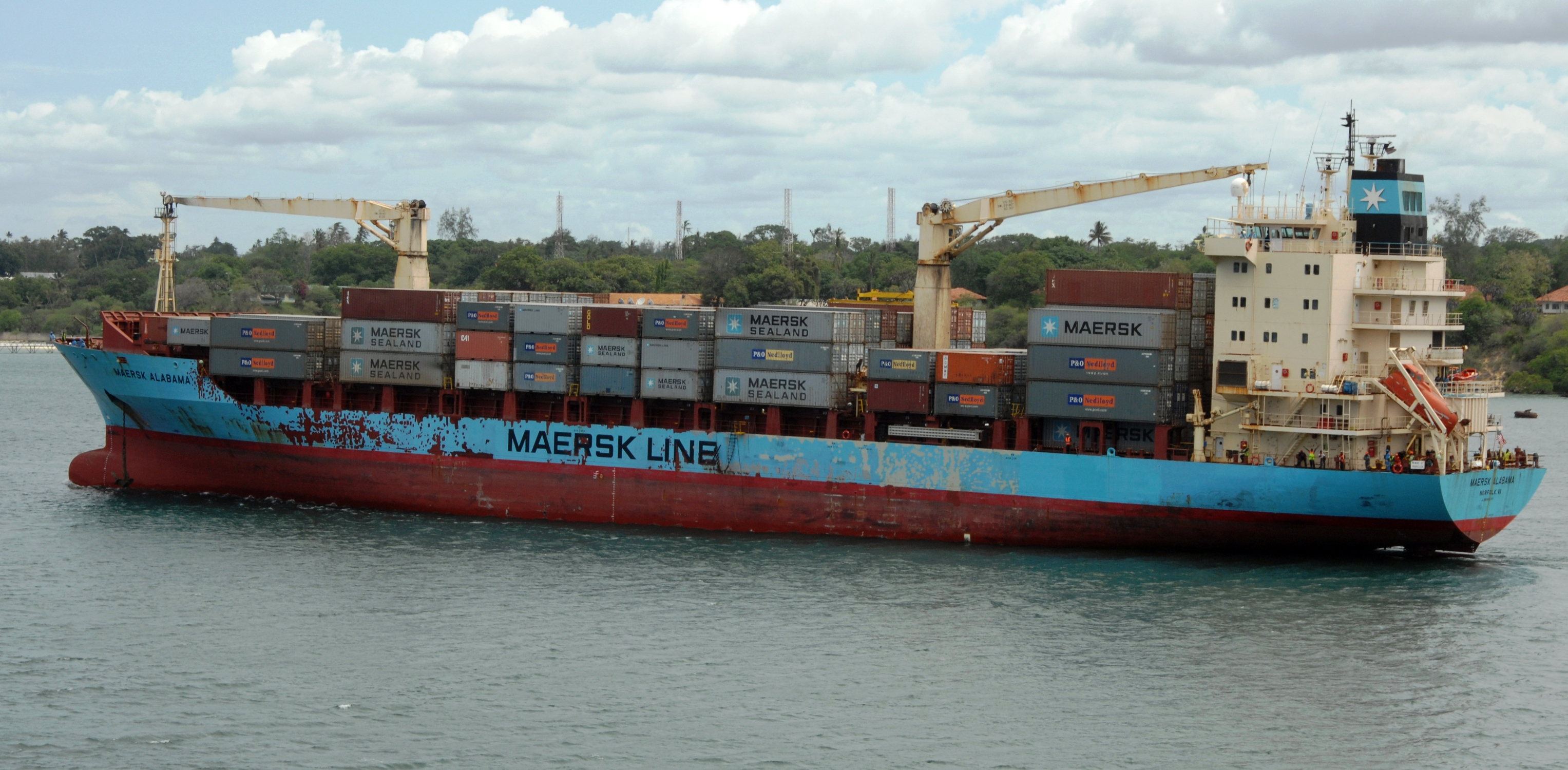 Container ship MV Maersk Alabama leaves Mombasa, Kenya, April 21, 2009, after spending time in port after a pirate attack that took her captain hostage.